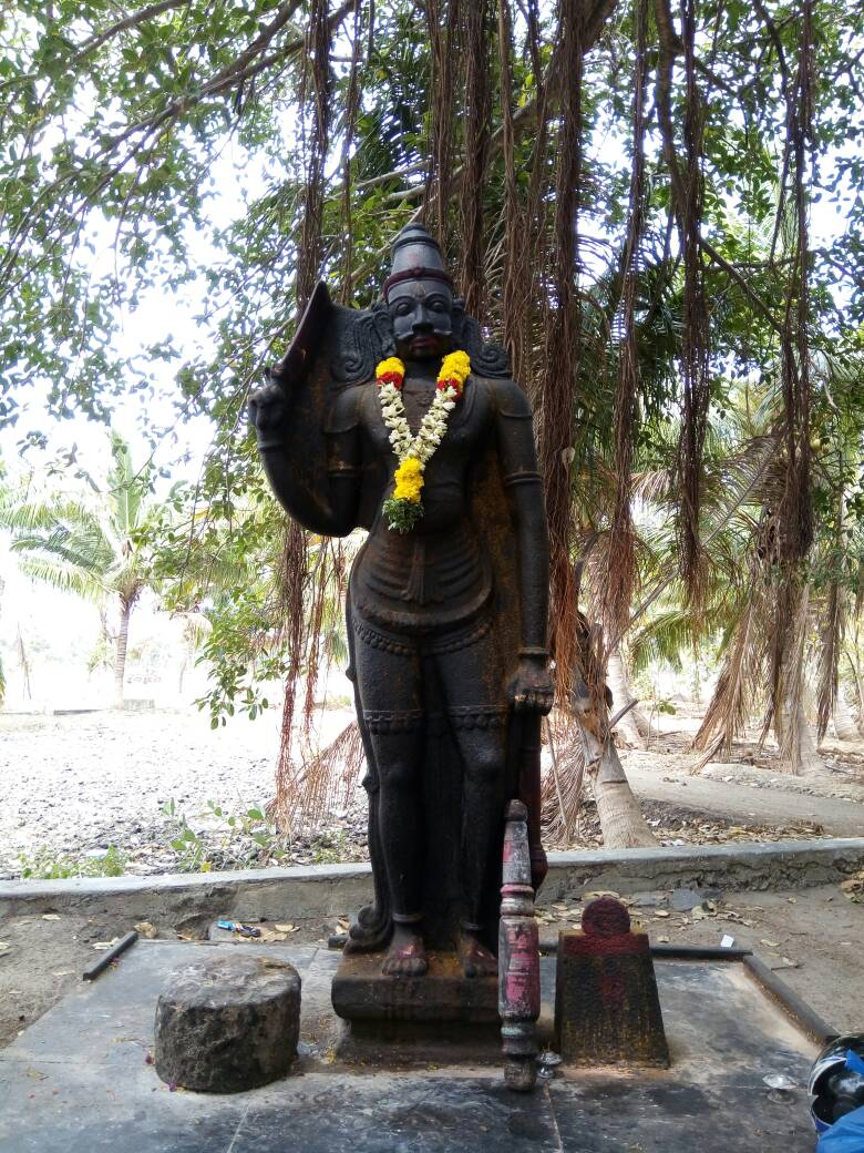 A very old statue of Sudalai Madan situated in Thanumalayanputhoor